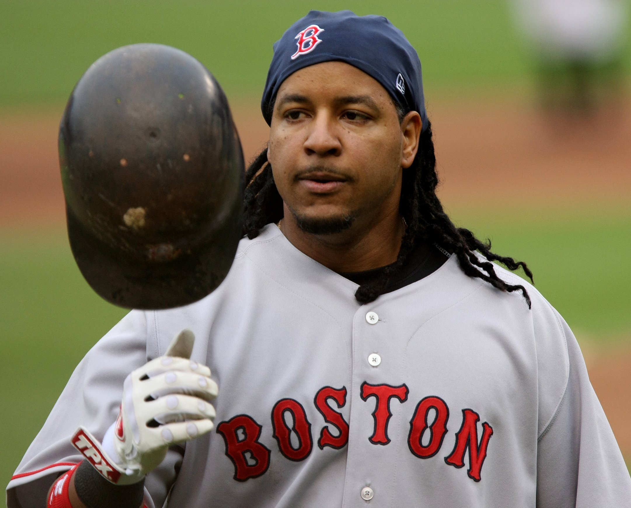 Manny Ramirez